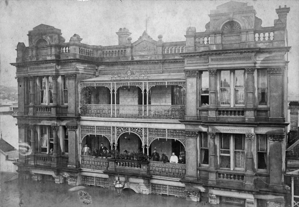 Graham's Hotel during the floods, Brisbane, 1893. Graham's Hotel was erected in 1887 in Stanley Street, South Brisbane. In later years it underwent many name changes, usually carrying the name of the licensee (eg. Long's Hotel). It was latterly the Manhattan Hotel eventually being demolished, ca. 1973. (Description supplied with photograph). The entire street level of the hotel, up to the top of the windows, is submerged beneath the flood waters.